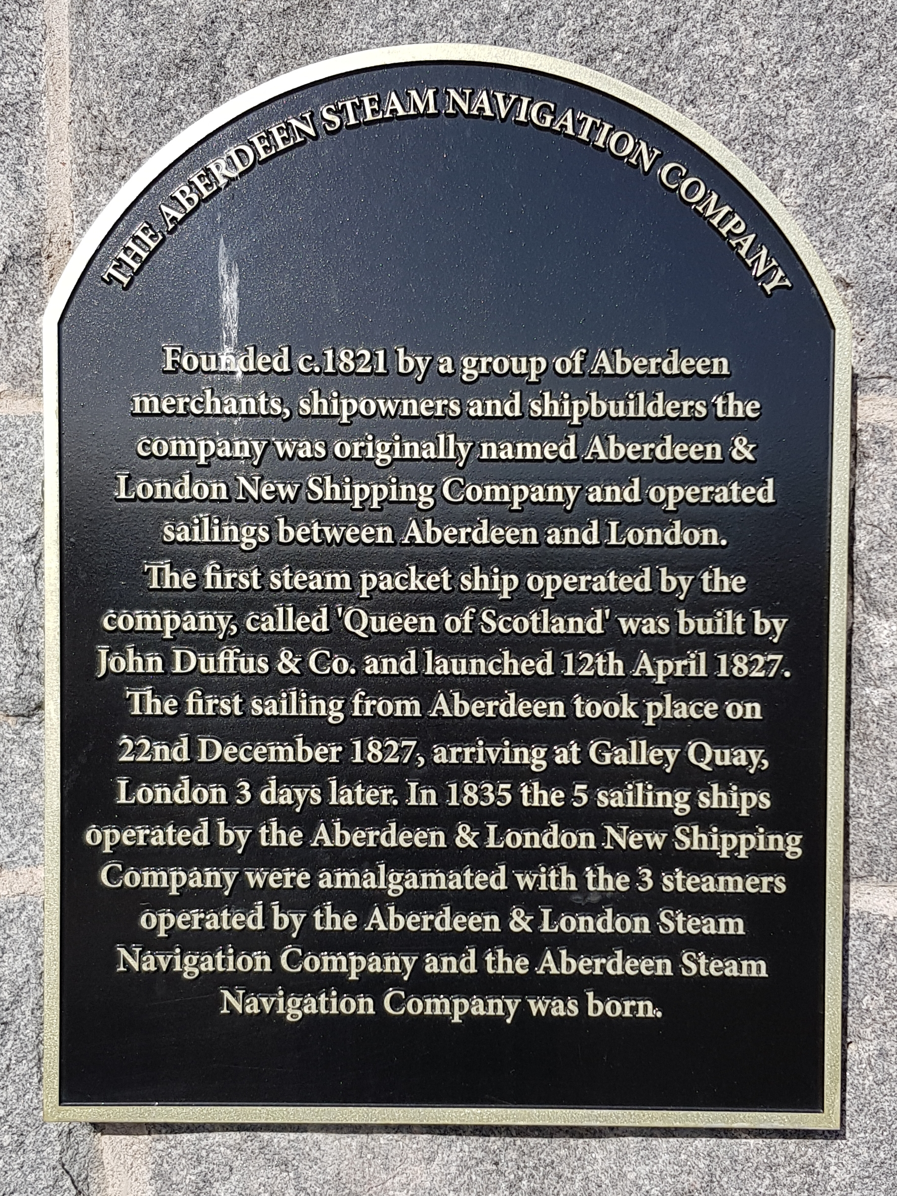 Commemorative plaque to the Aberdeen Steam Navigation Company on Waterloo Quay